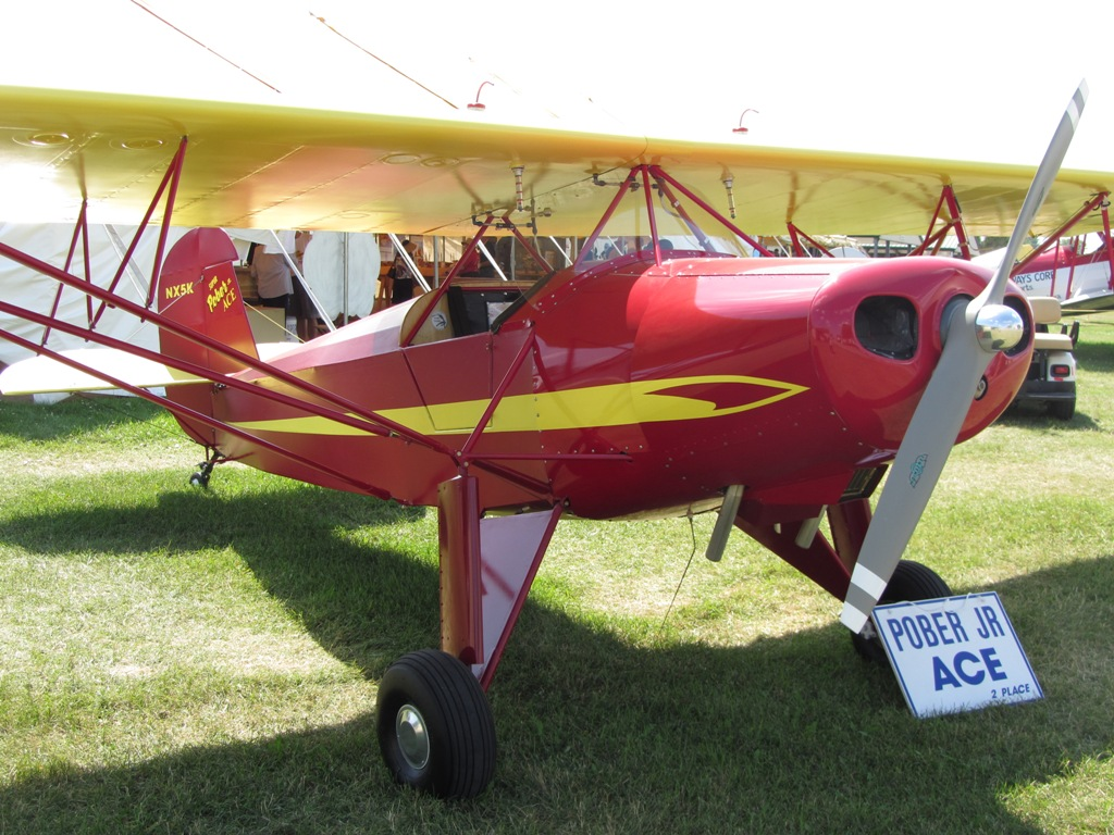 Pober Junior Ace (NX5K)